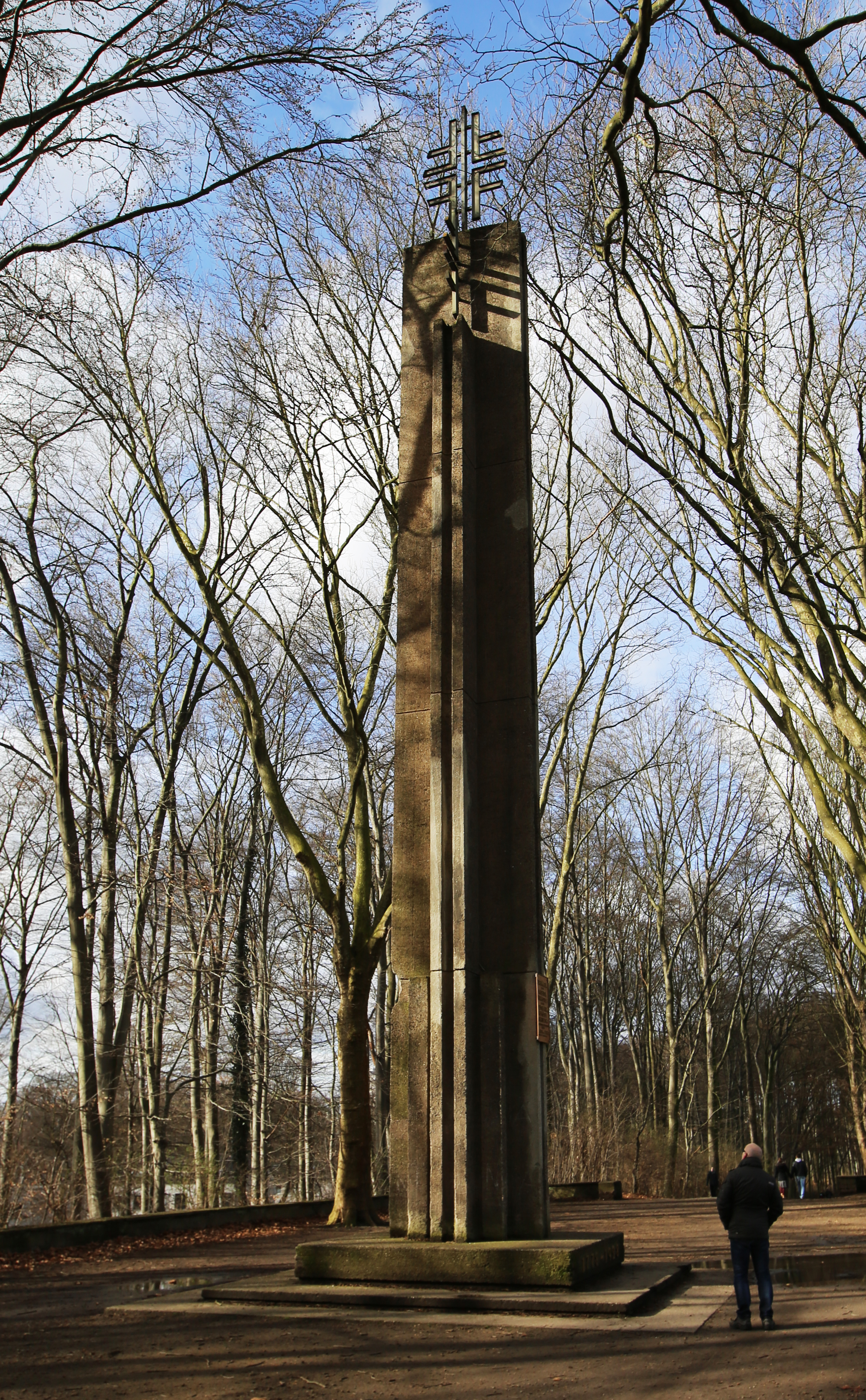 Historical monument, in remembrance of Friedrich Ludwig Jahn, unveiled at the German sporting event in 1928